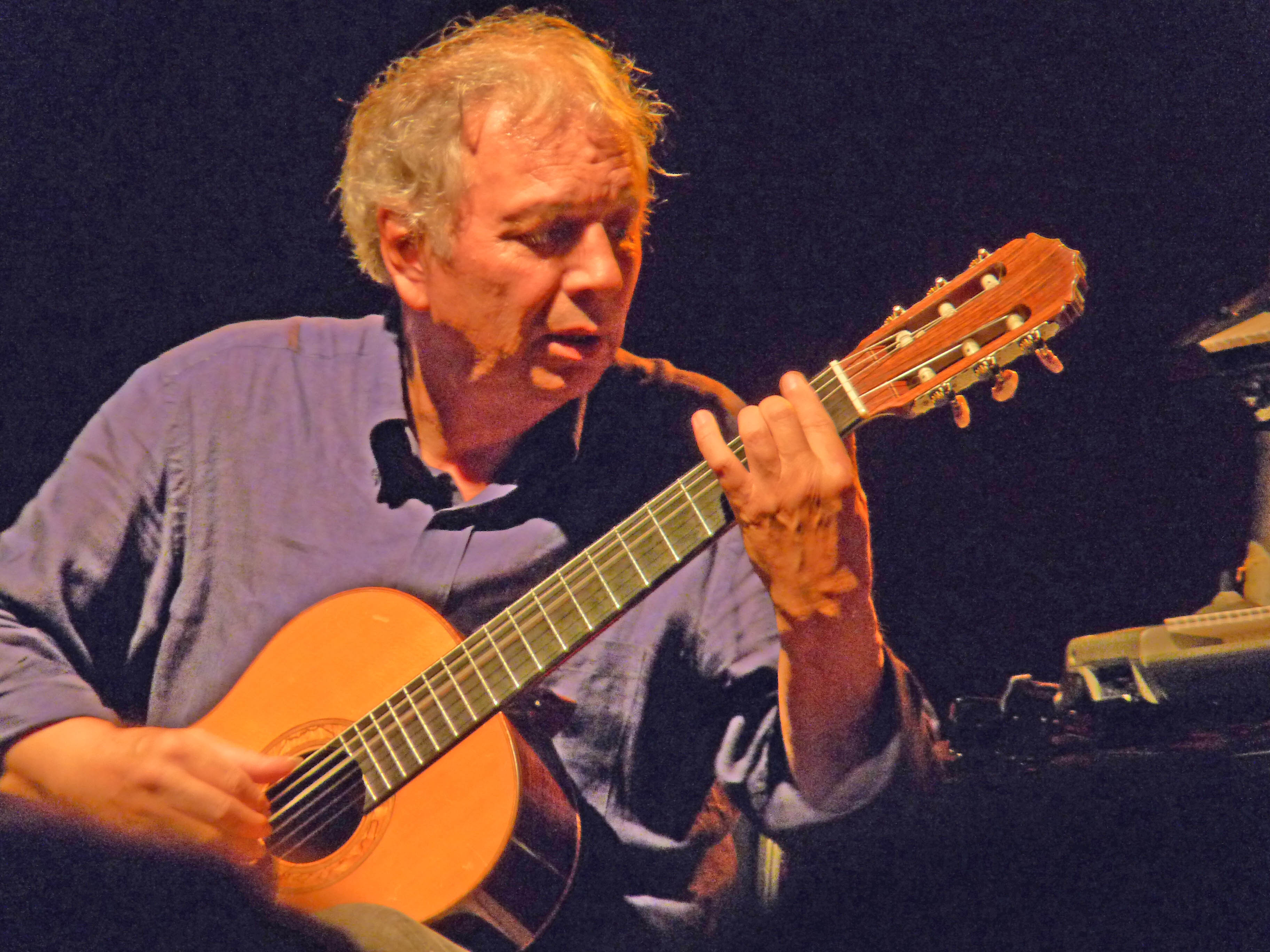 Ralph Towner at Centralstation, Darmstadt, Germany